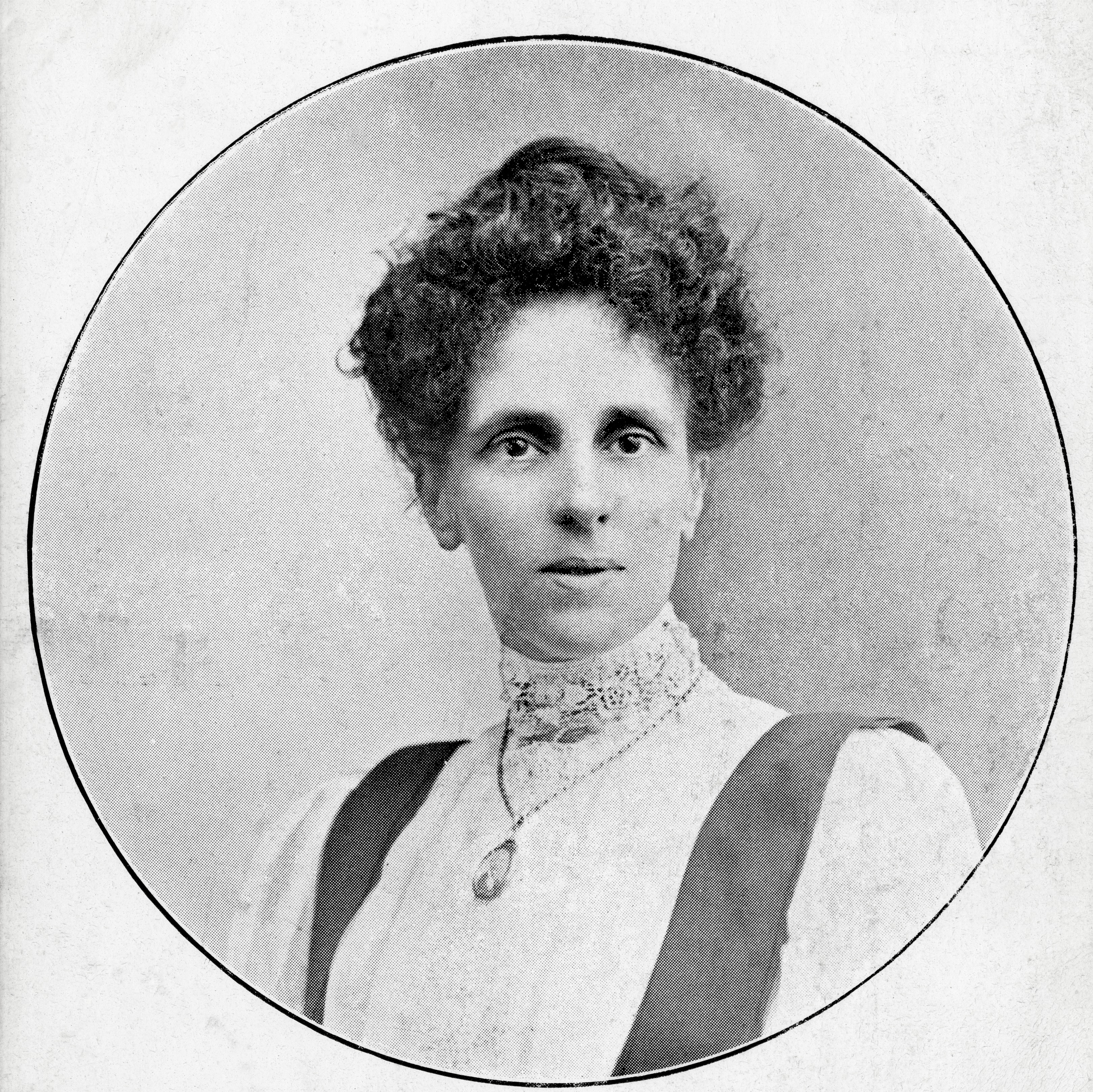 TWL.2002.14Postcard, printed, cardboard, monochrome photographic studio portrait of Jennie Baines, head and shoulders, circular, outlined in black, white background, printed inscription front: 'MRS BAINES. Photochrom Co., Ltd. National Women's Social & Political Union, 4, Clements Inn, WC'.